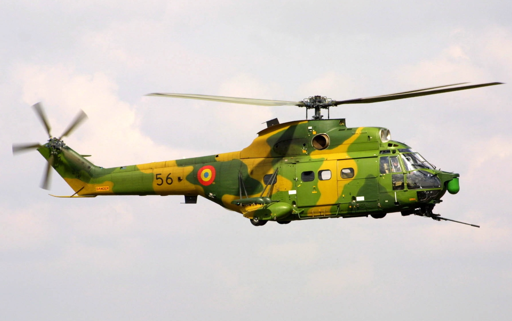 !IAR-330_Puma_SOCAT_antitank_gunship